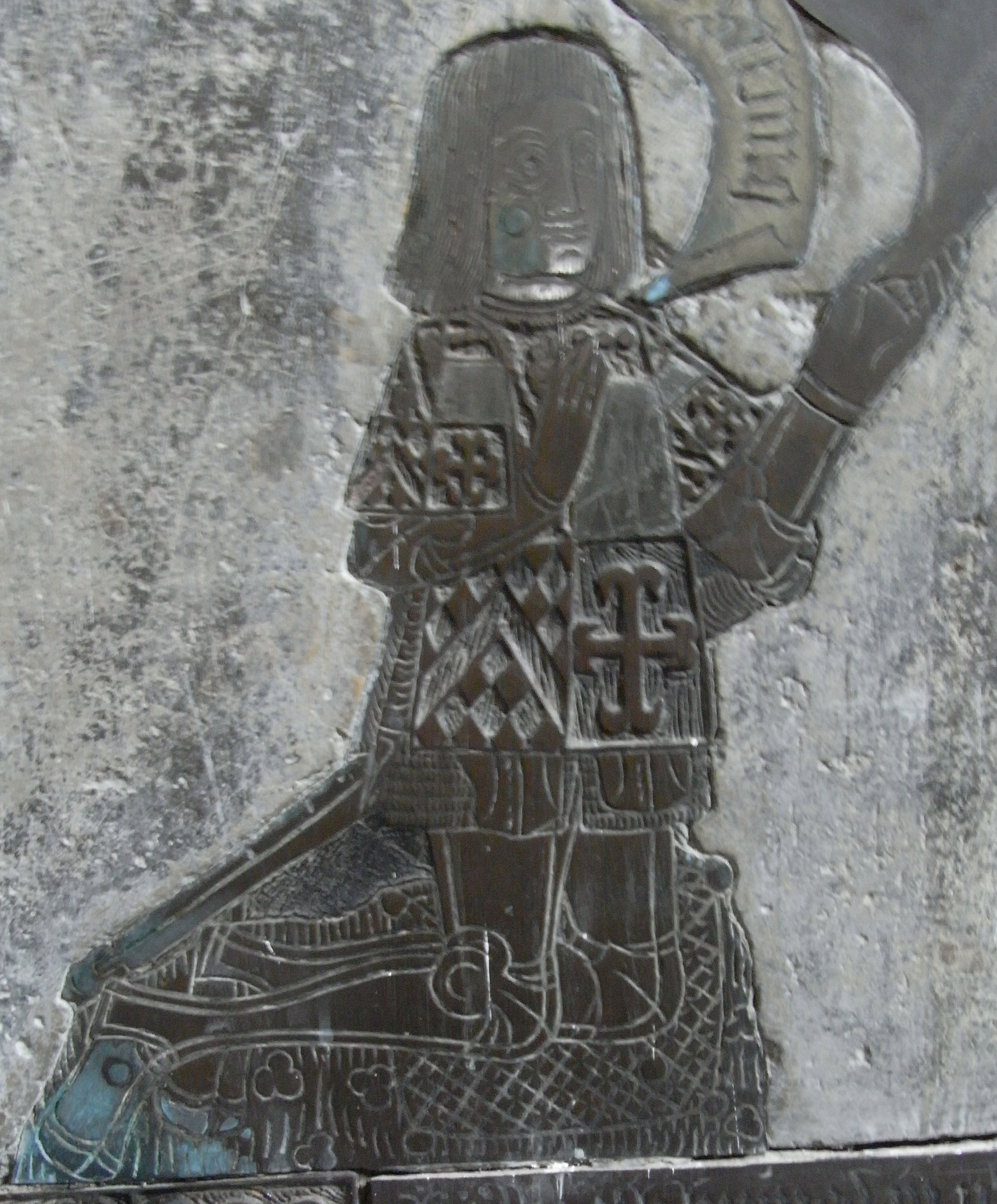 Maurice Denys (c. 1410–1466), Esquire, who was twice Sheriff of Gloucestershire in 1460 and 1461, as depicted on a monumental brass in the Parish Church of Saint Mary the Virgin, Olveston, Gloucestershire, England, UK.